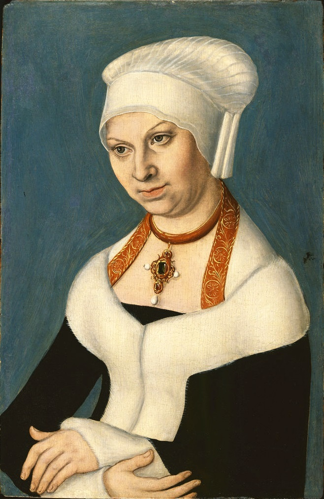 wife of George the Bearded